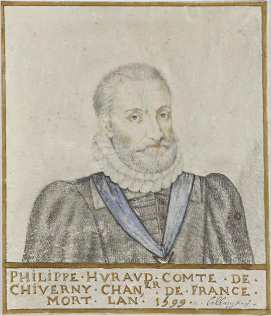 Portrait of Philippe Hurault, chancelier de France